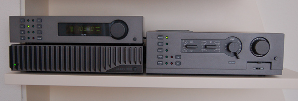 Quad 44, 306 versterker en FM 4 tuner